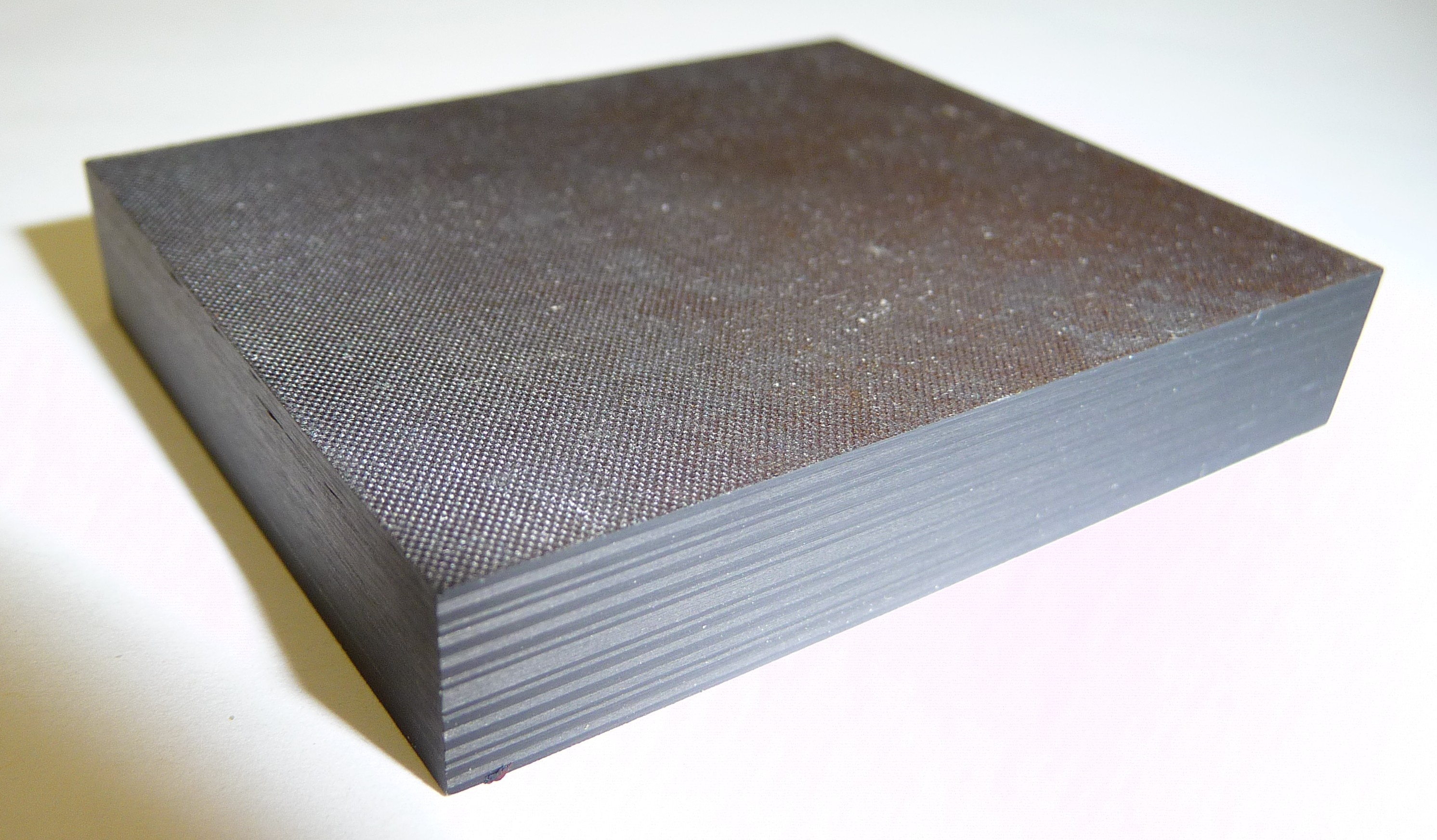 This is a photo of a small piece of laminated uni-directional Carbon Fibre.